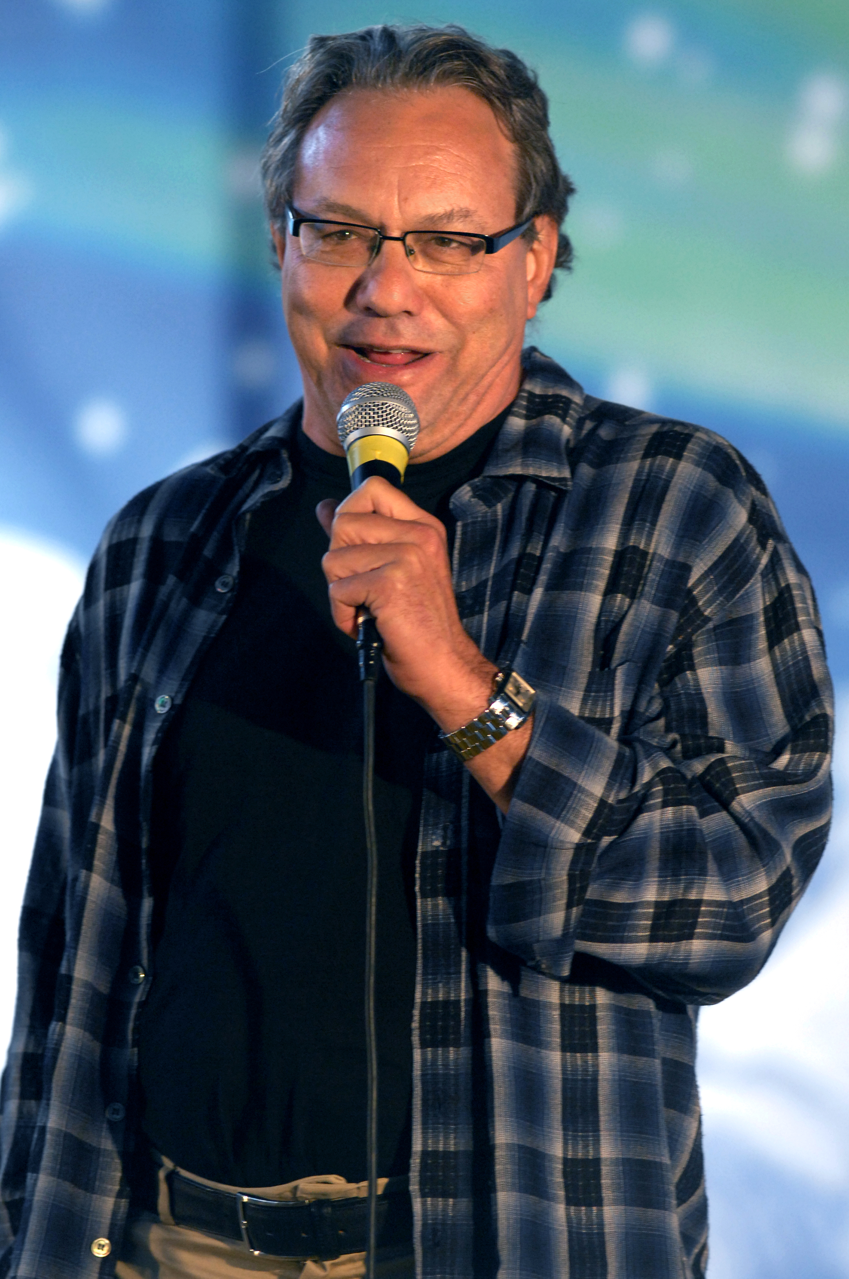 AVIANO AIR BASE, Italy-- Comedian Lewis Black performs as part of a USO holiday show held for the Aviano community, Dec. 22, 2007. Navy Adm. Michael G. Mullen, chairman of the Joint Chiefs of Staff, arrived in Aviano early Saturday afternoon from down range, bringing entertainers and celebrities Robin Williams, Lewis Black, Kid Rock, Lance Armstrong, Rachel Smith, the reigning Miss USA, and Ronan Tynan an Irish Tennor on the Chairman's United Service Organizations Holiday tour.